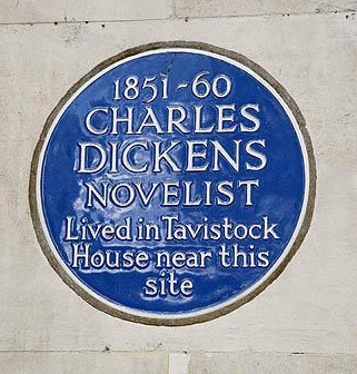 Blue plaque on the BMA Building in Tavistock Square commemorating Tavistock House, the former home of Charles Dickens